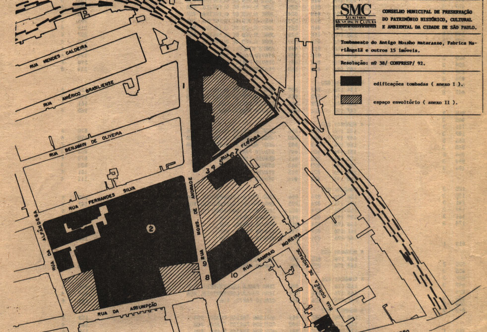 Map from 1992 on Bras Neighborhood with a special focus on Moinho Matarazzo